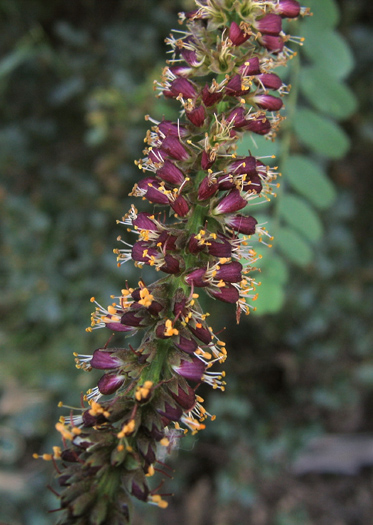 Amorpha californica var. californica — California false indigo. Taken at Crags Road in Malibu Creek State Park, in the Santa Monica Mountains. Located within the Santa Monica Mountains National Recreation Area, Southern California. NPS photo, no copyright.